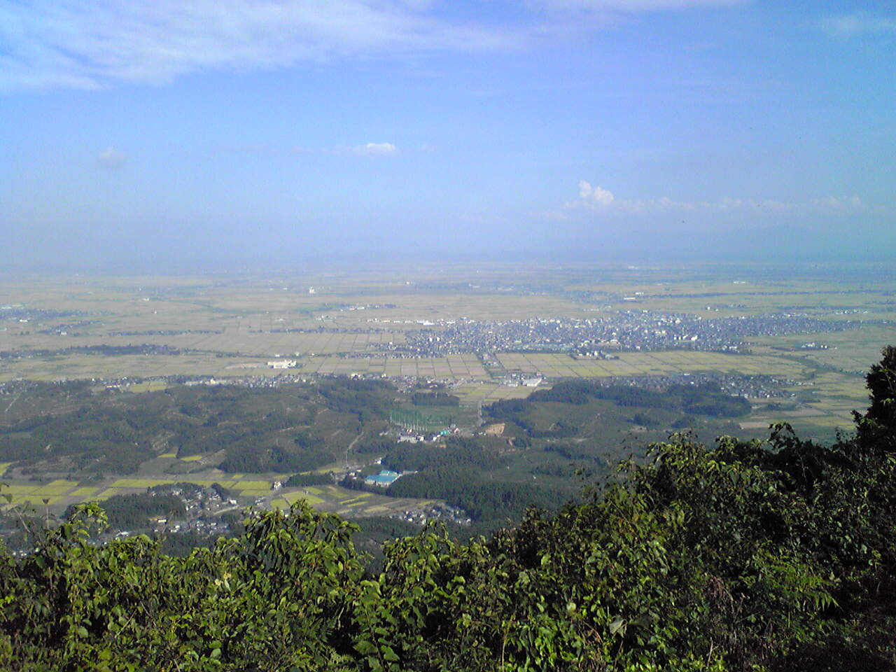 From the neighborhood of top of the Mt. Kakuda, I took the center area of Maki, Nishikan-ku to a photograph.